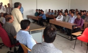 First interaction of student with Adarsh Shastri at Lal Bahadur Shastri Polytechnic Manda